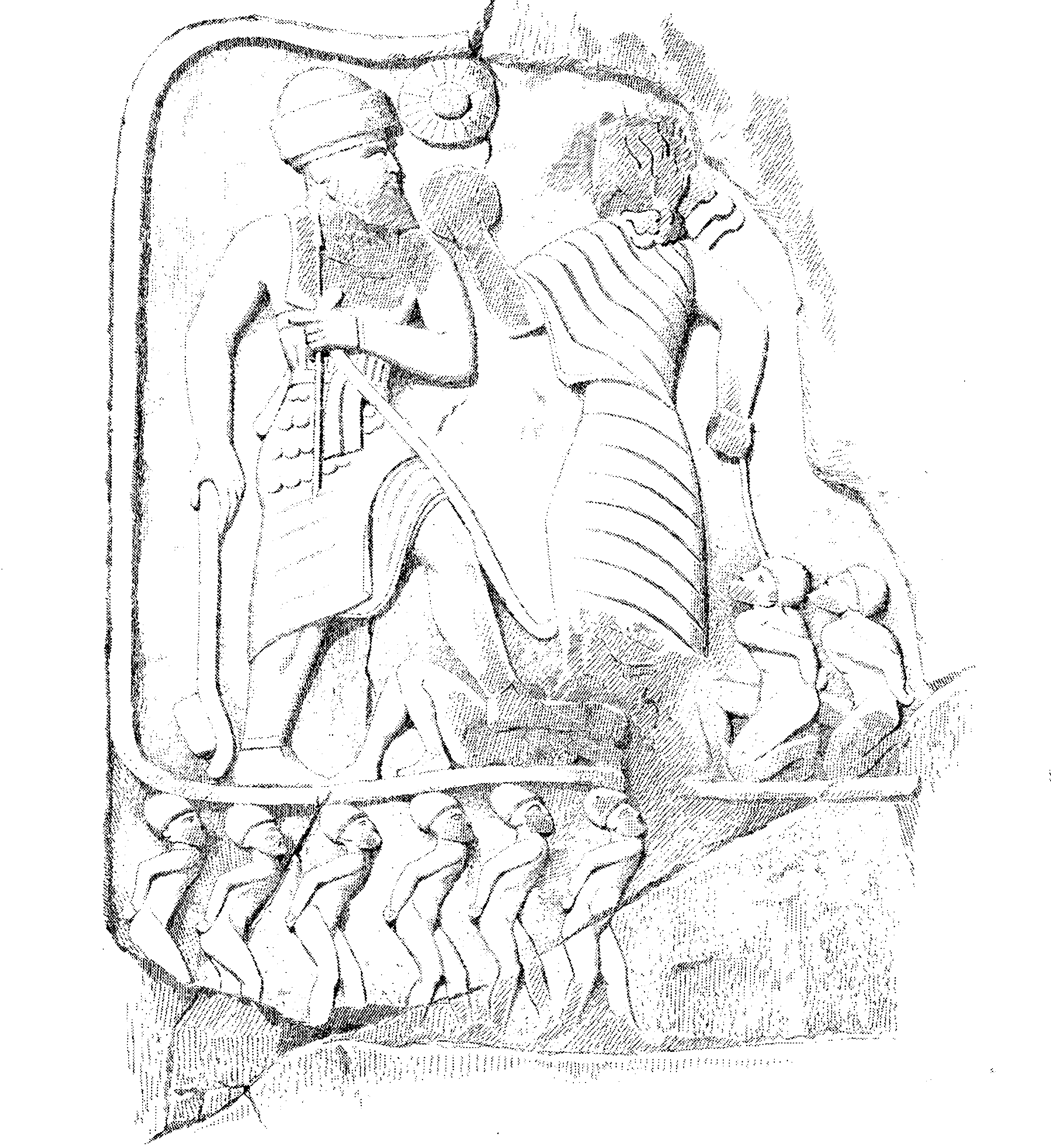 Lullubi carved rock relief. Victory of King Anubanini and goddes Ishtar. Sar-e Pol-e Zahab, province of Kurdistan, Iran. Relief believed to have inspired Darius the Great's relief at Behistun.